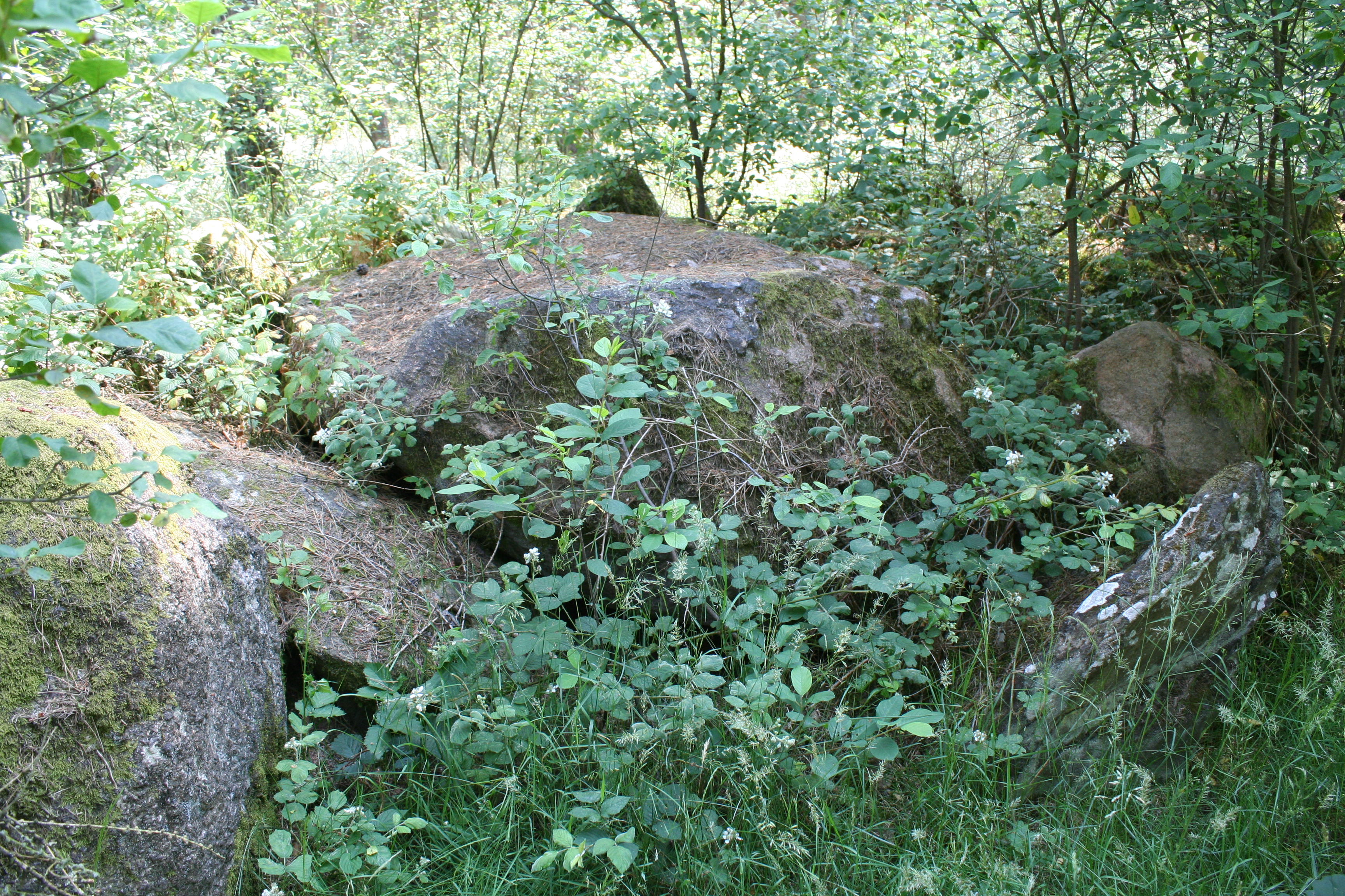 Megalithic tomb Bebertal I 4